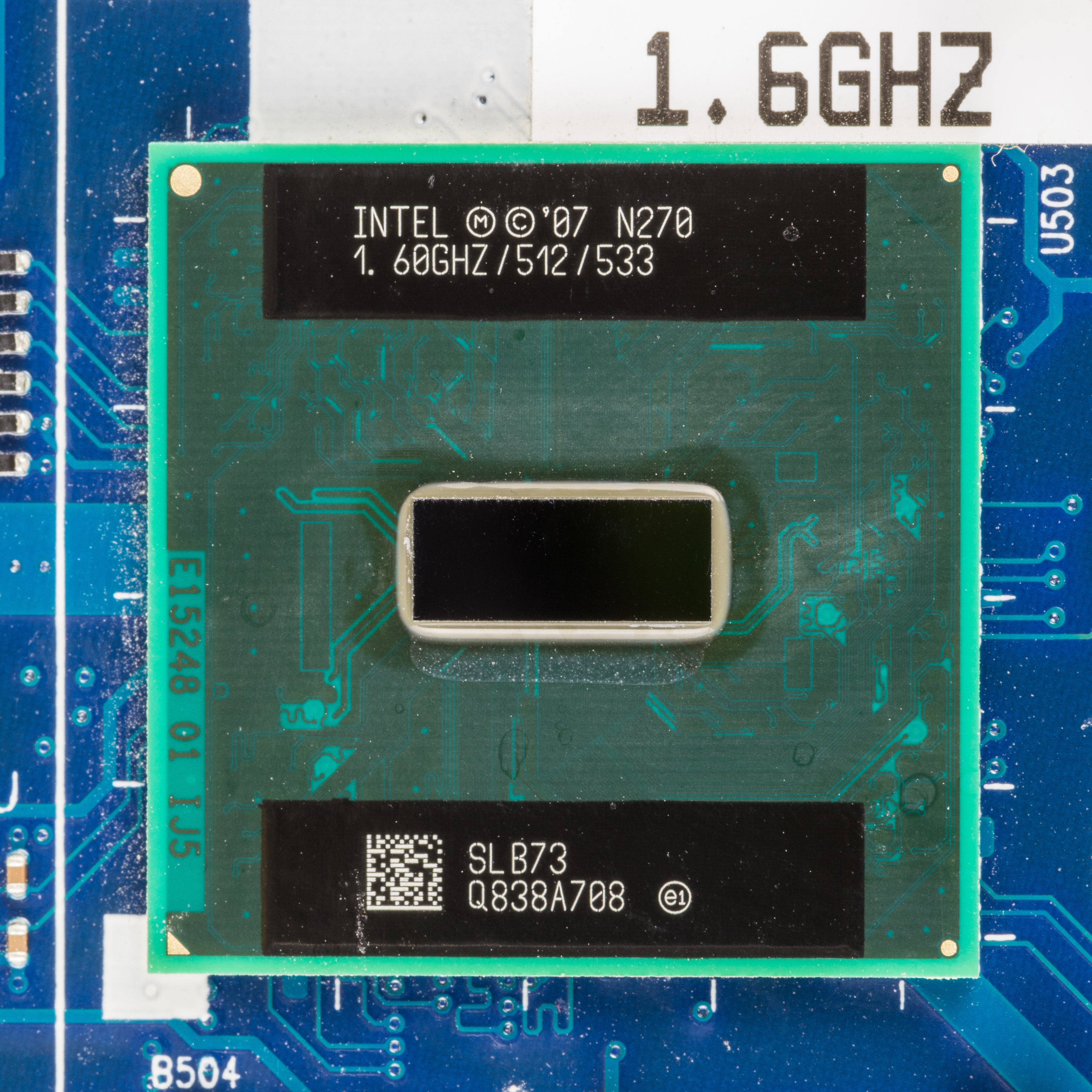 Samsung NC10 - motherboard - Intel N270 SLB73 - Atom 1.60 GHz. Codename: Diamondville